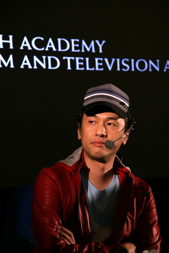 Masaya Matsuura giving the BAFTA Vision keynote at the Gamecity festival in Nottingham, United-Kingdom.